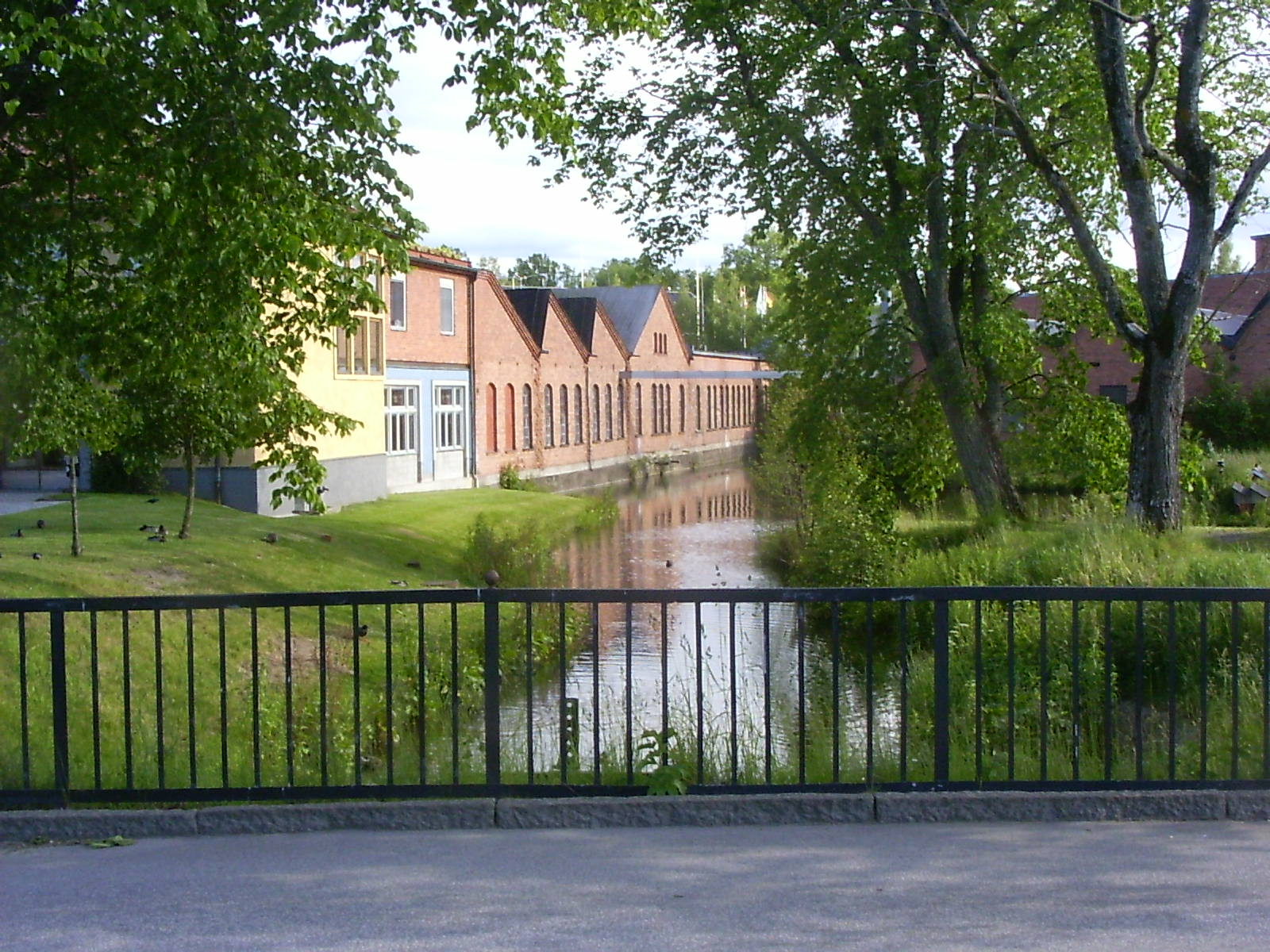 Åtvidaberg, industrial buildings